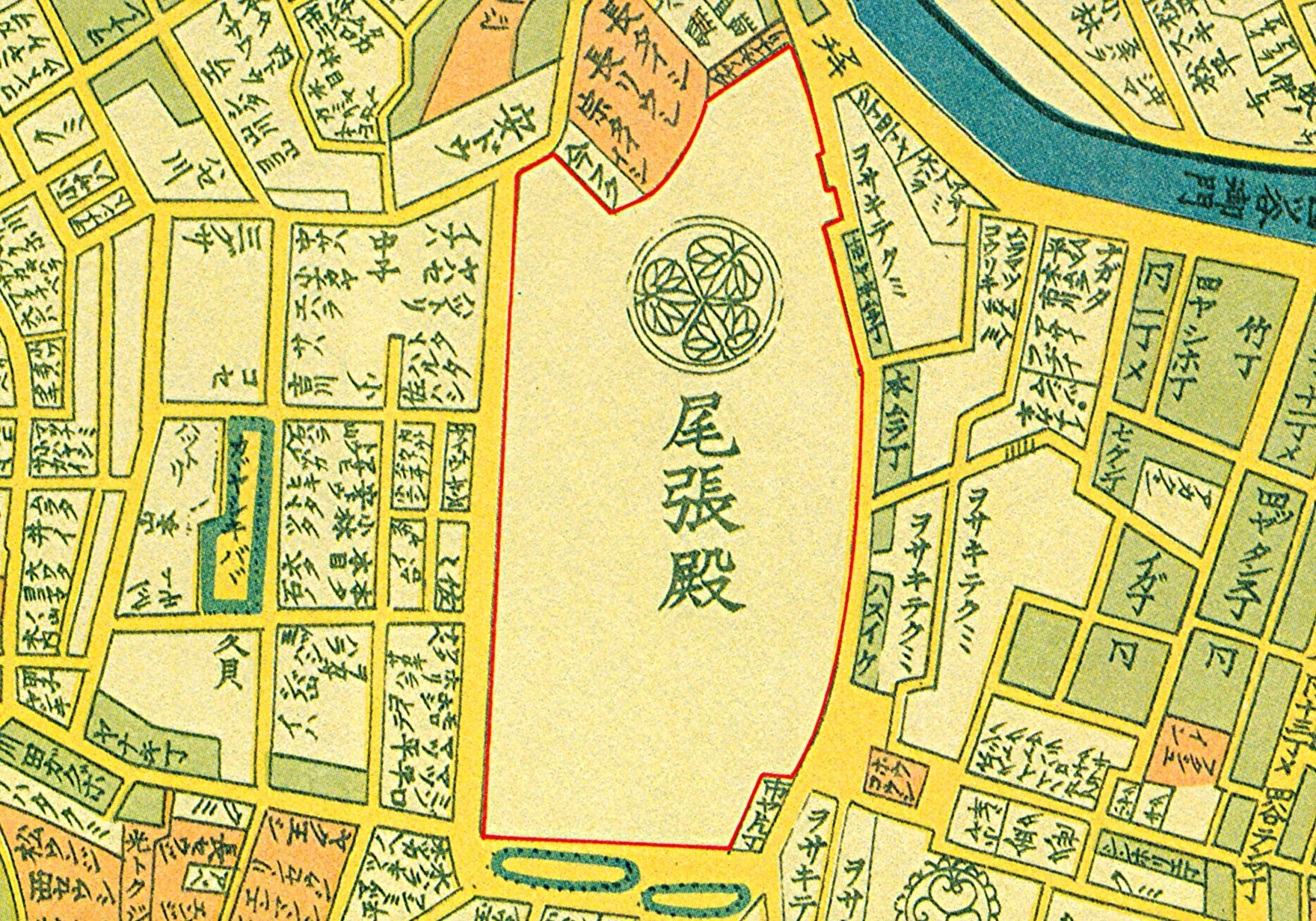 Residence of Tokugawa Owarri at Edo